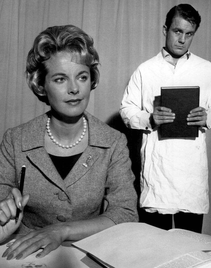 Photo of Cliff Robertson as Charlie Gordon and Mona Freeman as his teacher, Alice, from the television program "The Two Worlds of Charlie Gordon" (1961). This was a presentation of the series The United States Steel Hour. Robertson would reprise his role as Charlie in 1968 in the film Charlie.